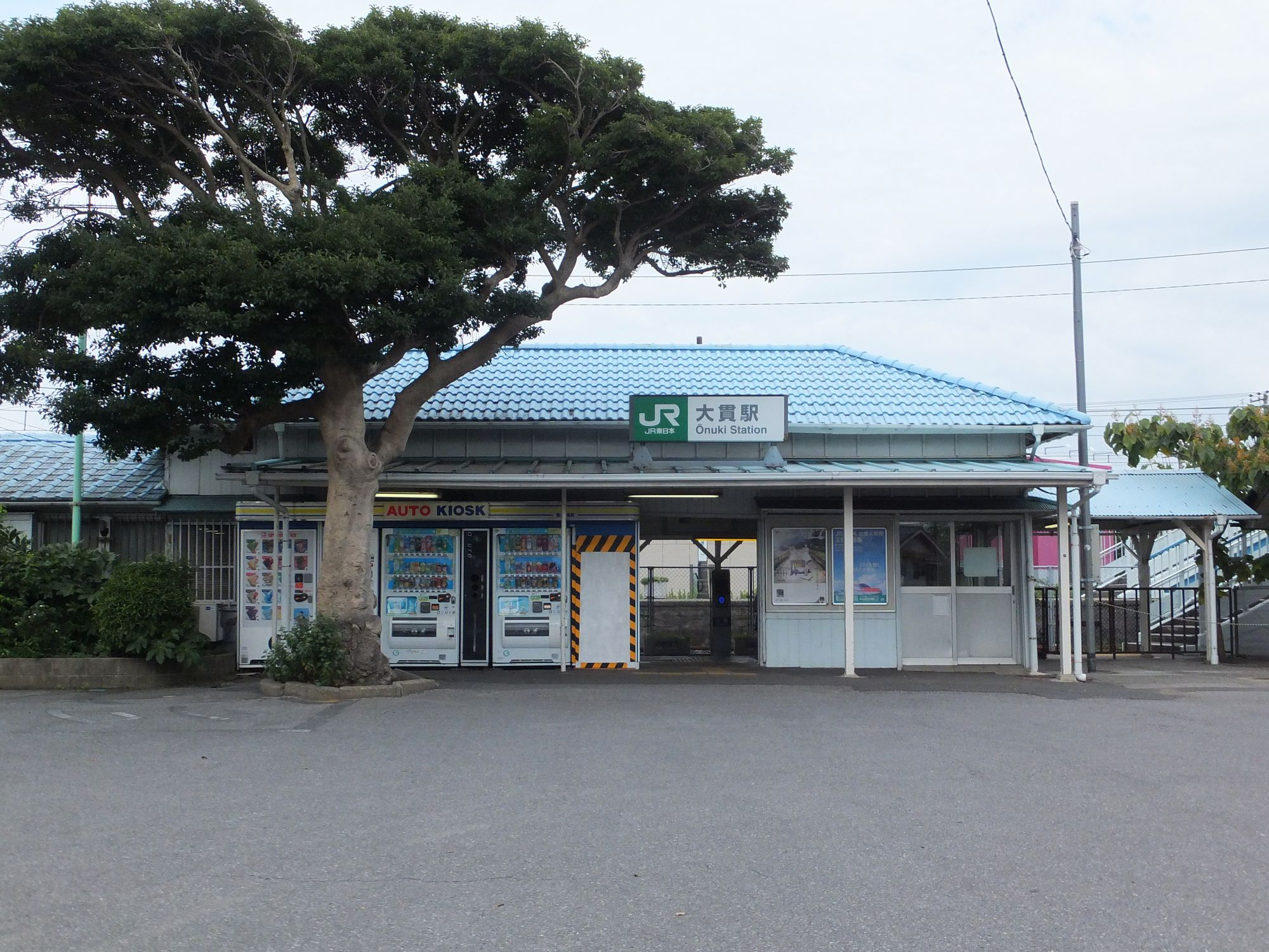 Ōnuki Station on the JR East's Uchibō Line in Futtsu, Chiba prefecture